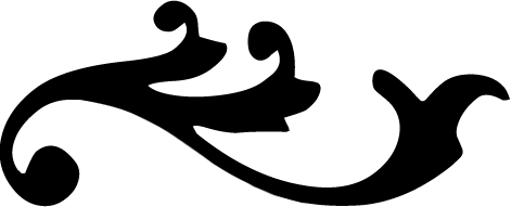 Bodoni Ornaments font "£" modified, 02 (up right)